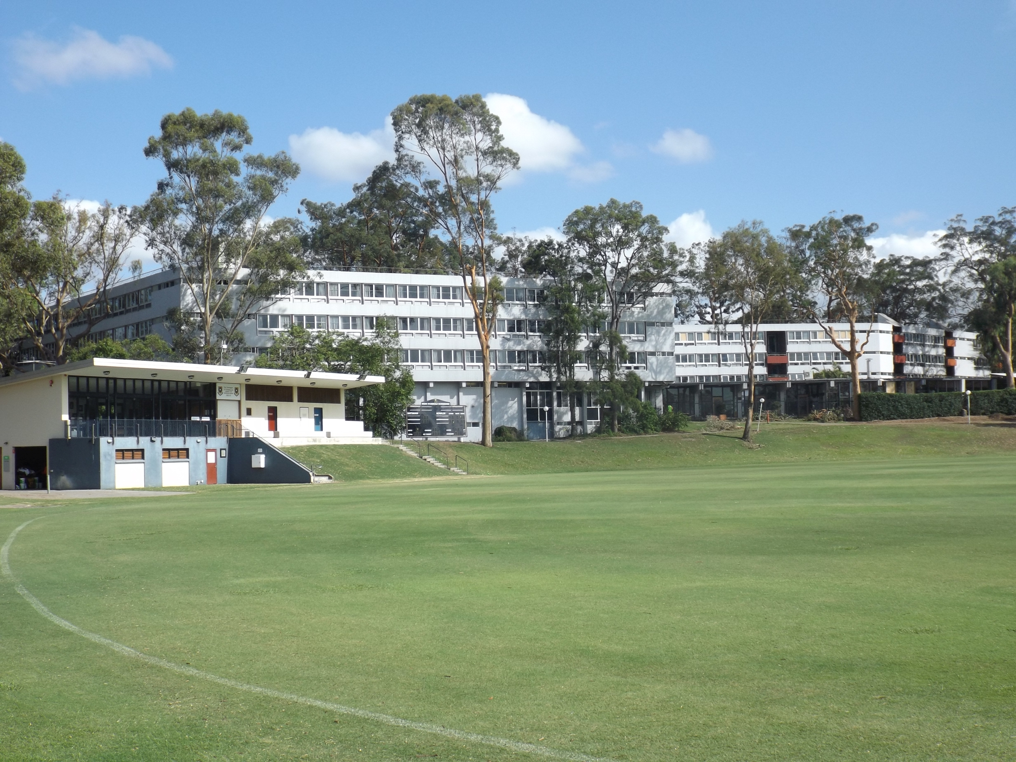 Photo of Union College building and Oval 1 WEP Harris Oval at the University of Queensland, St Lucia, Queensland, Australia.